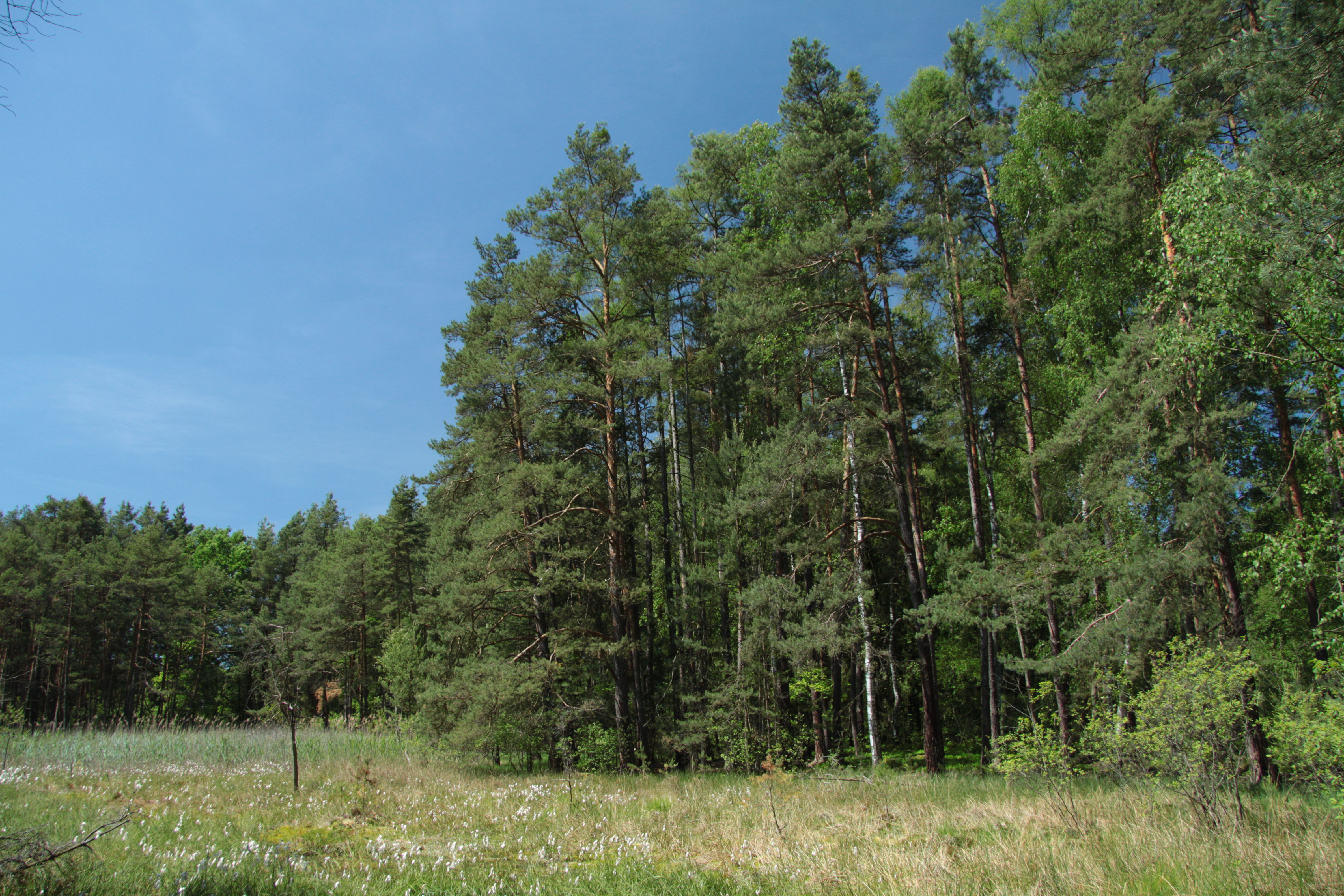 Natural monument Hliníř near Lhota u Dynína in České Budějovice District, Czech Republic - Google Maps - Google Earth